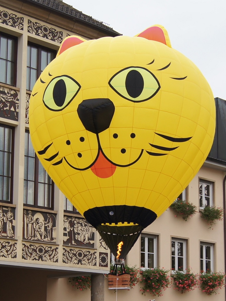 balloon modell